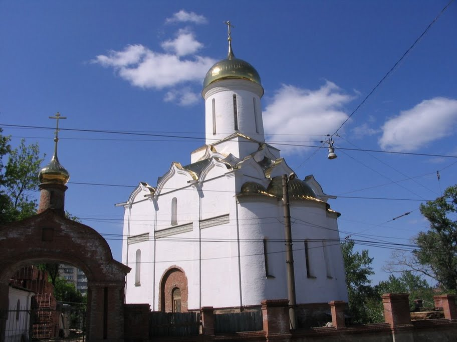 Temple of the Sacred Trinity in Ivanovo, Russia